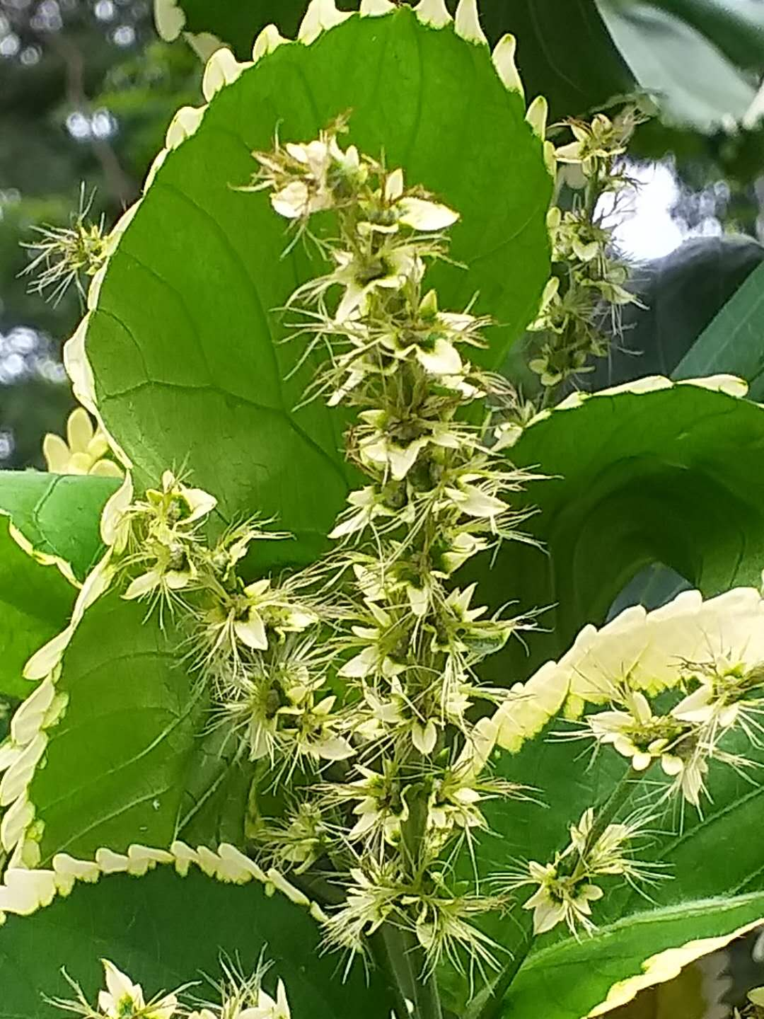 Inflorescence of Acalypha wilkesiana. National Chung Hsing University, Taichung, Taiwan.